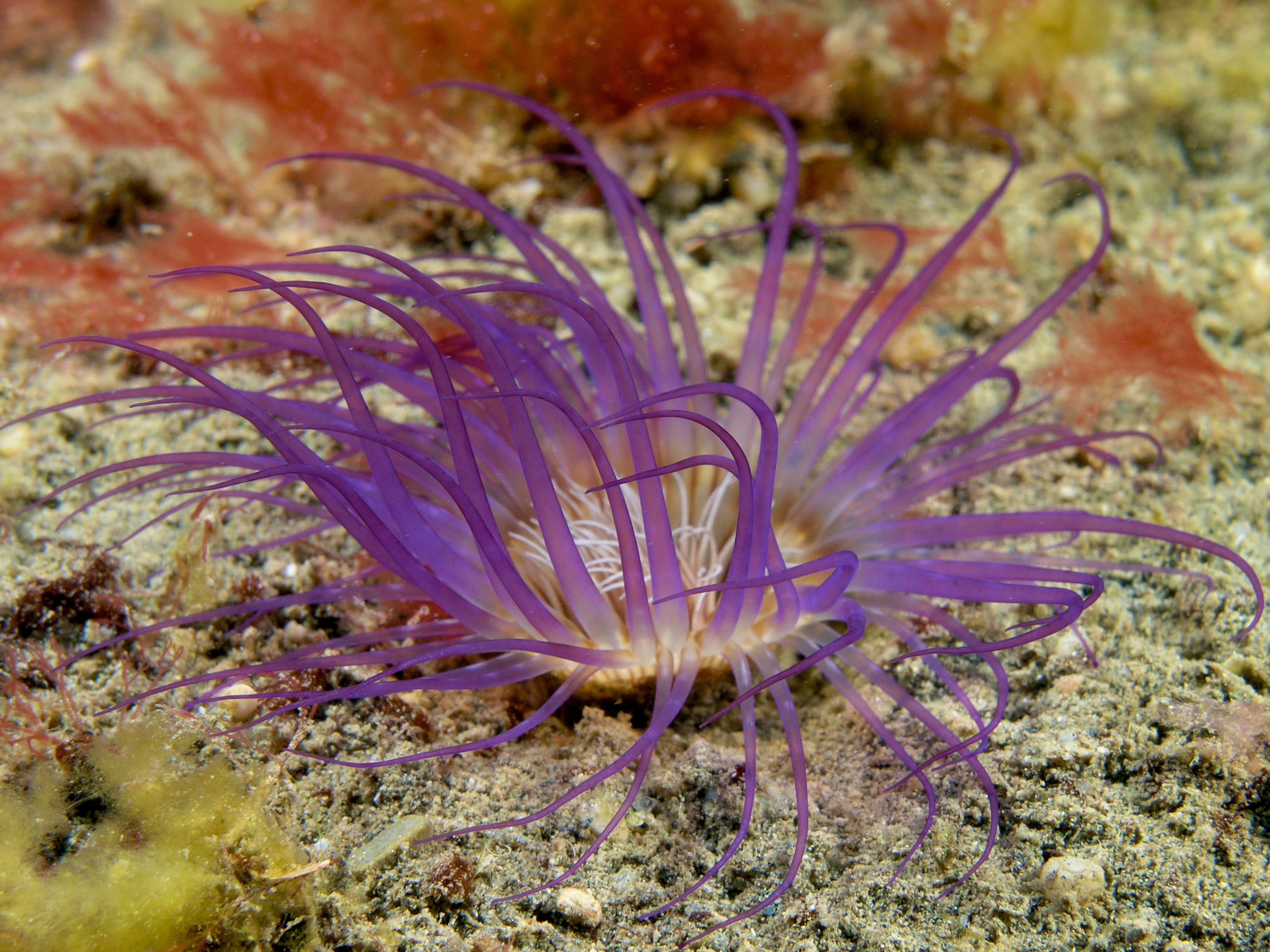 Ceranthidae (Purple irridescent tube anemone)